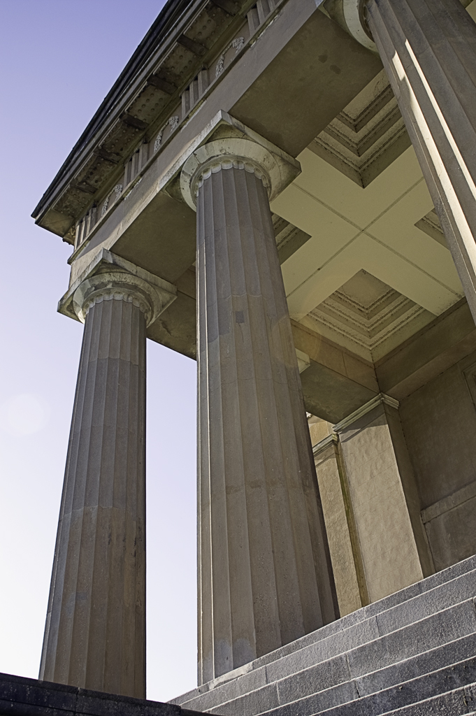 Doric columns of Northington Grange facade. Hampshire — England.